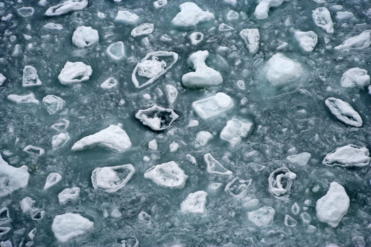 Pancake ice frozen together. September, 2006. Arctic Ocean, north of western Russia.